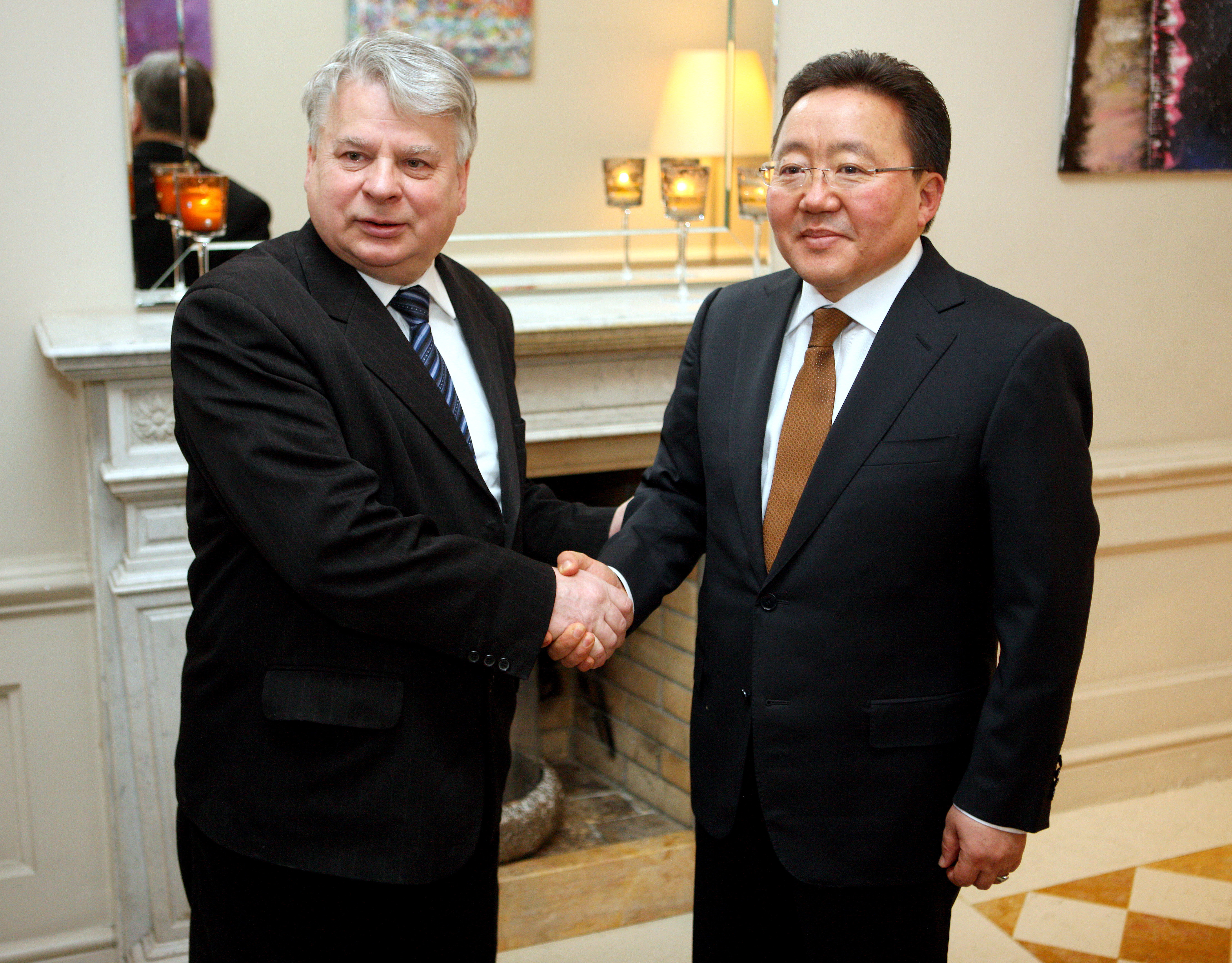 President of Mongolia Tsakhiagiin Elbegdorj and Marshal of the Polish Senate Bogdan Borusewicz